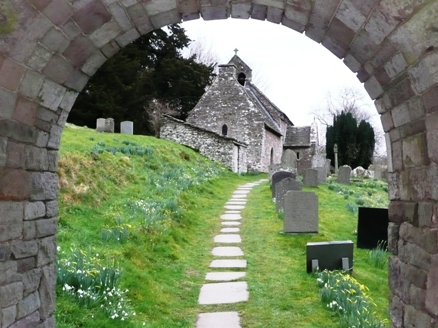 St. Ishow church, Partrishow